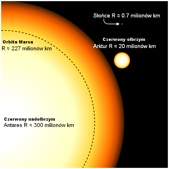 The biggest star that is known to exist. Comparison between the red supergiant Antares and the Sun, shown as the tiny dot toward the upper right. The black circle is the size of the orbit of Mars. Arcturus is also included in the picture for size comparison